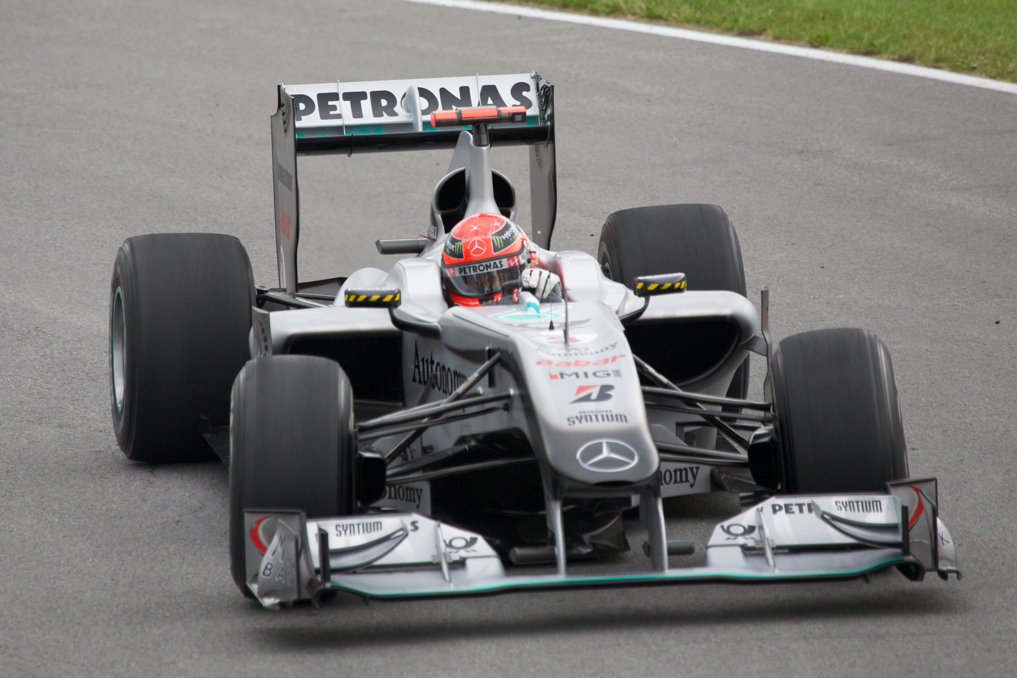 Michael Schumacher. It's really great to see him on track again.